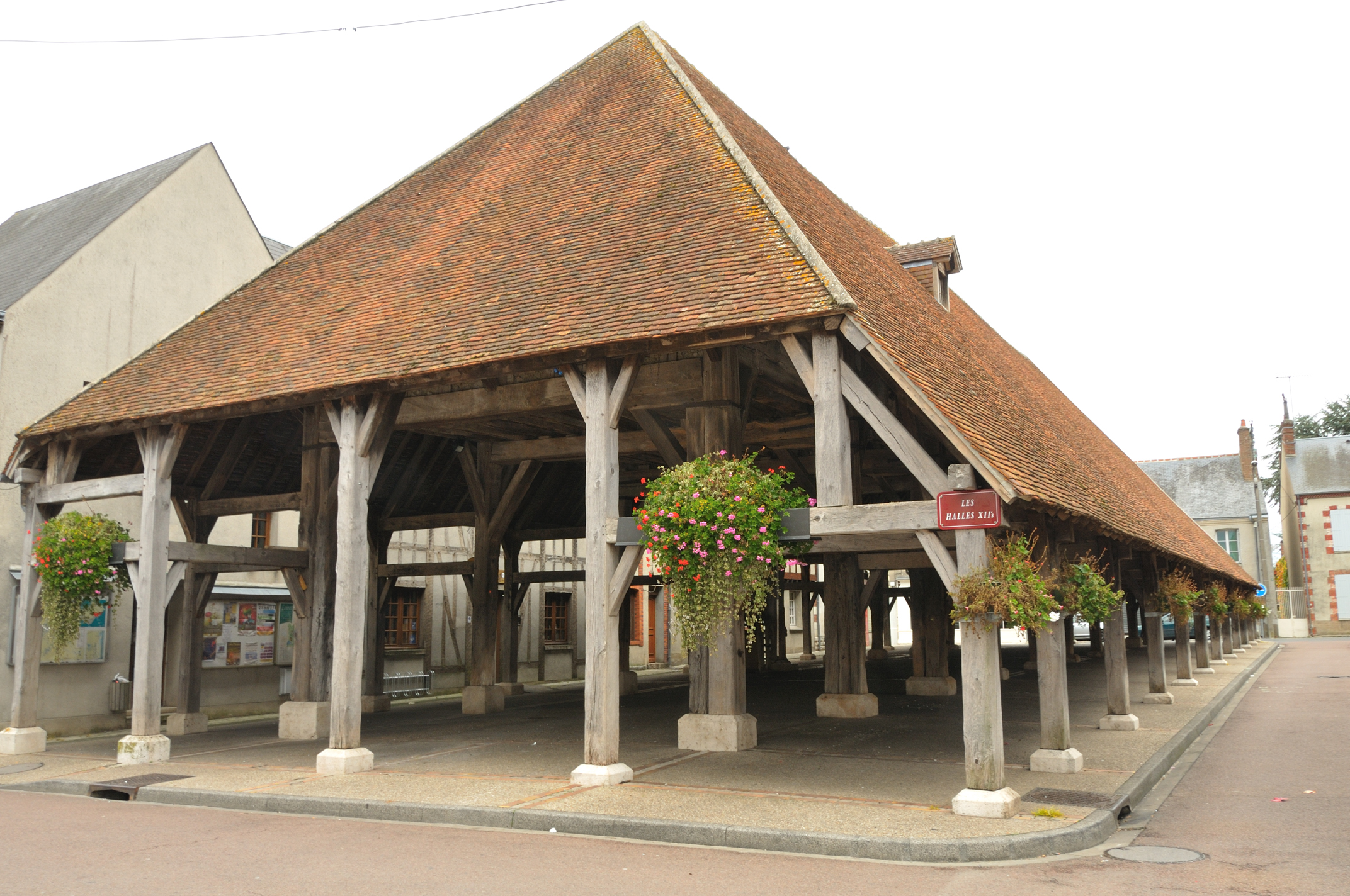 12th century market hall in Lorris, natural region of Gâtinais, Loiret, Centre region, France.